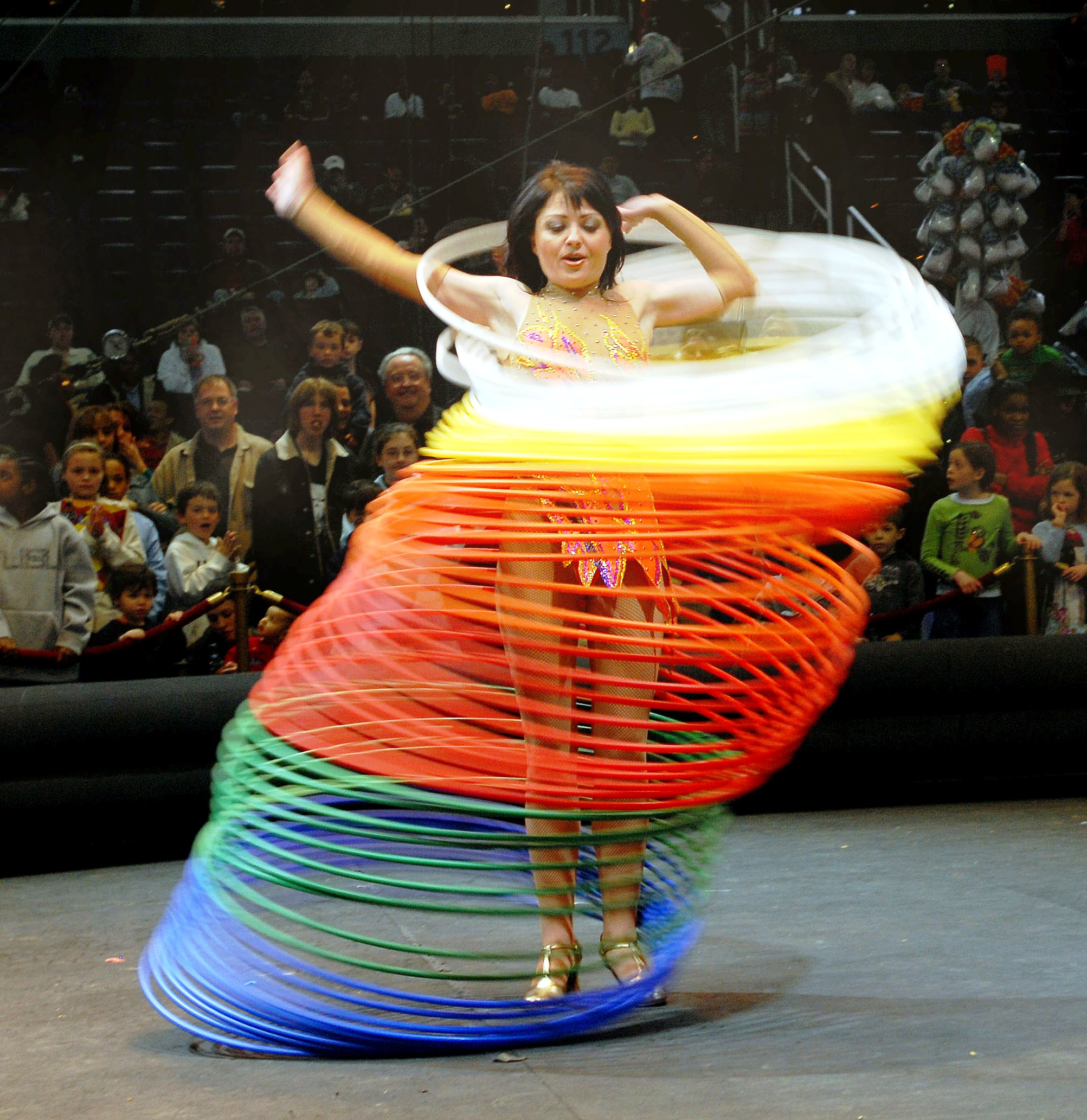 Washington D.C., US - Taking on the appearance of a human Slinky toy, a member of Ringling Bros. and Barnum & Bailey Circus keeps 60 hula hoops going at once during her pre-show act March 27.